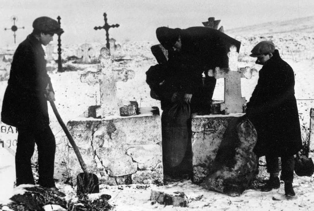 The contemporary caption says: "“Seizing grain from kulaks”. YCL'ers seizing grain hidden by kulaks in the graveyard. Ukraine" At these times the term "kulak" (wealthy peasant) was liberally applied to anyone who resisted collectivization